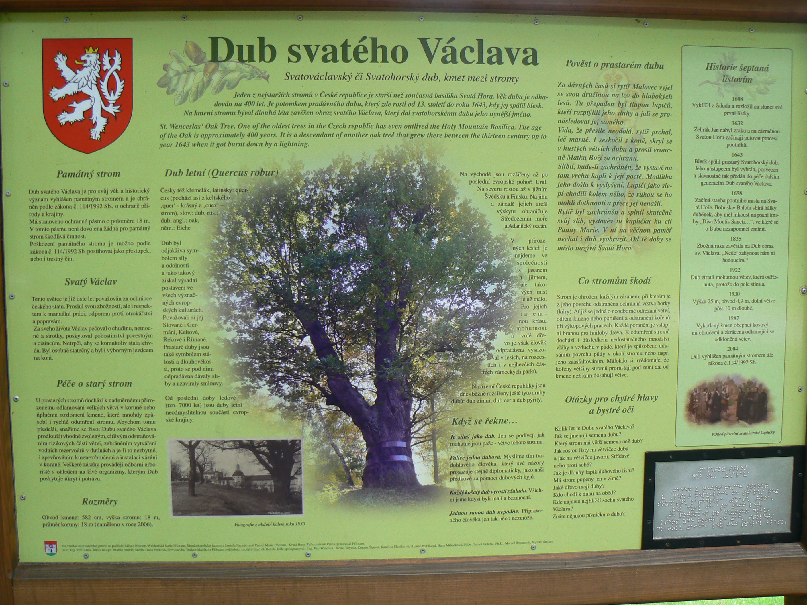 Information schedule about St. Venceslaus oak in Příbram (Svatá Hora)